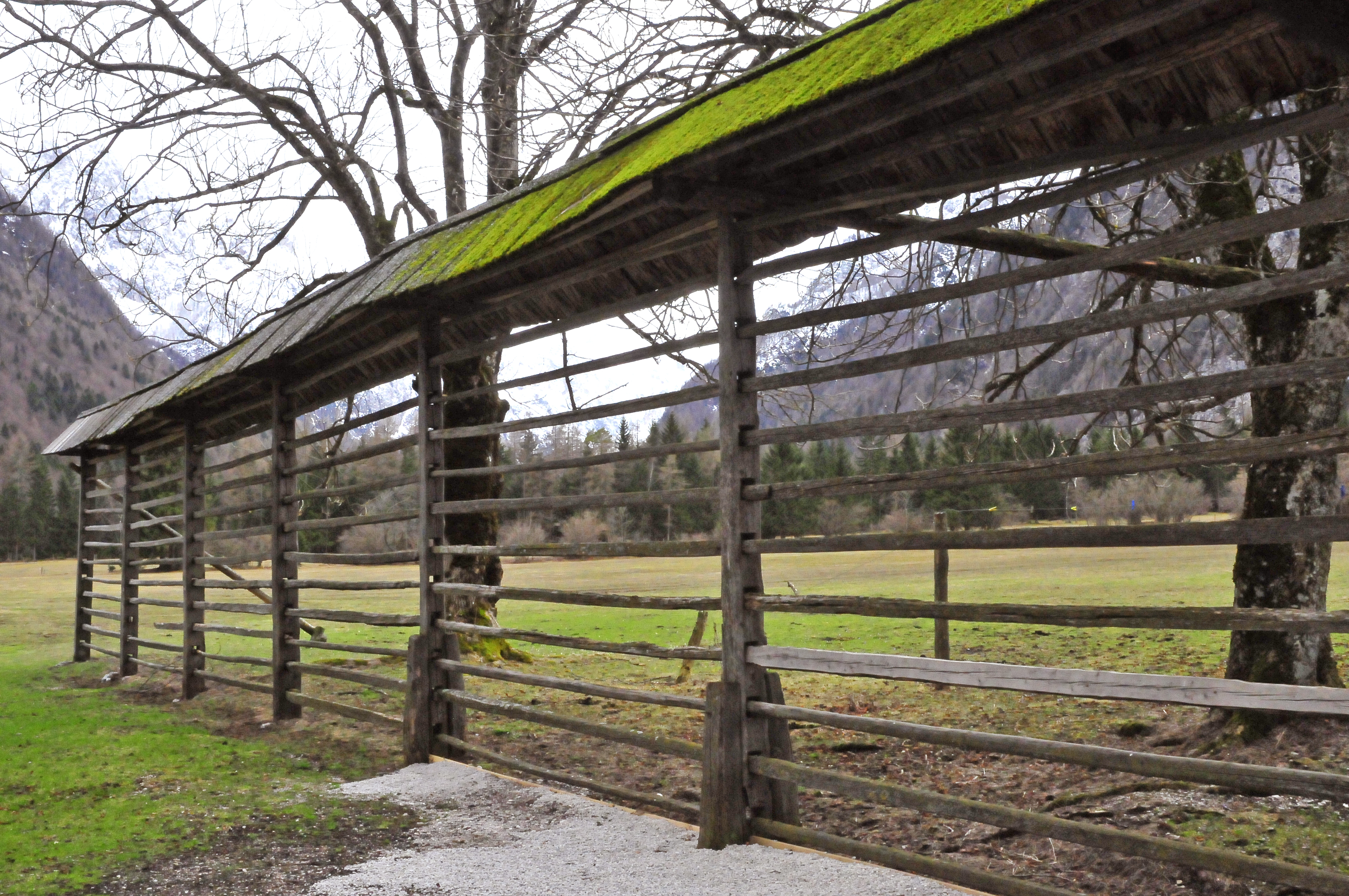 Hay rack at Zgornja Radovna, Kranjska Gora, Upper Carniola, Slovenia